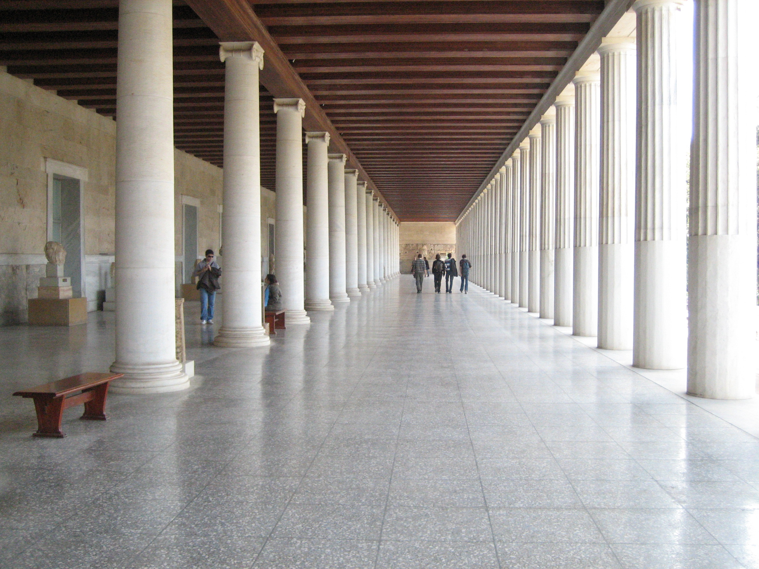 Inside the Stoa of Attalus, Ancient Agora of Athens, Central Athens, Attica, Greece